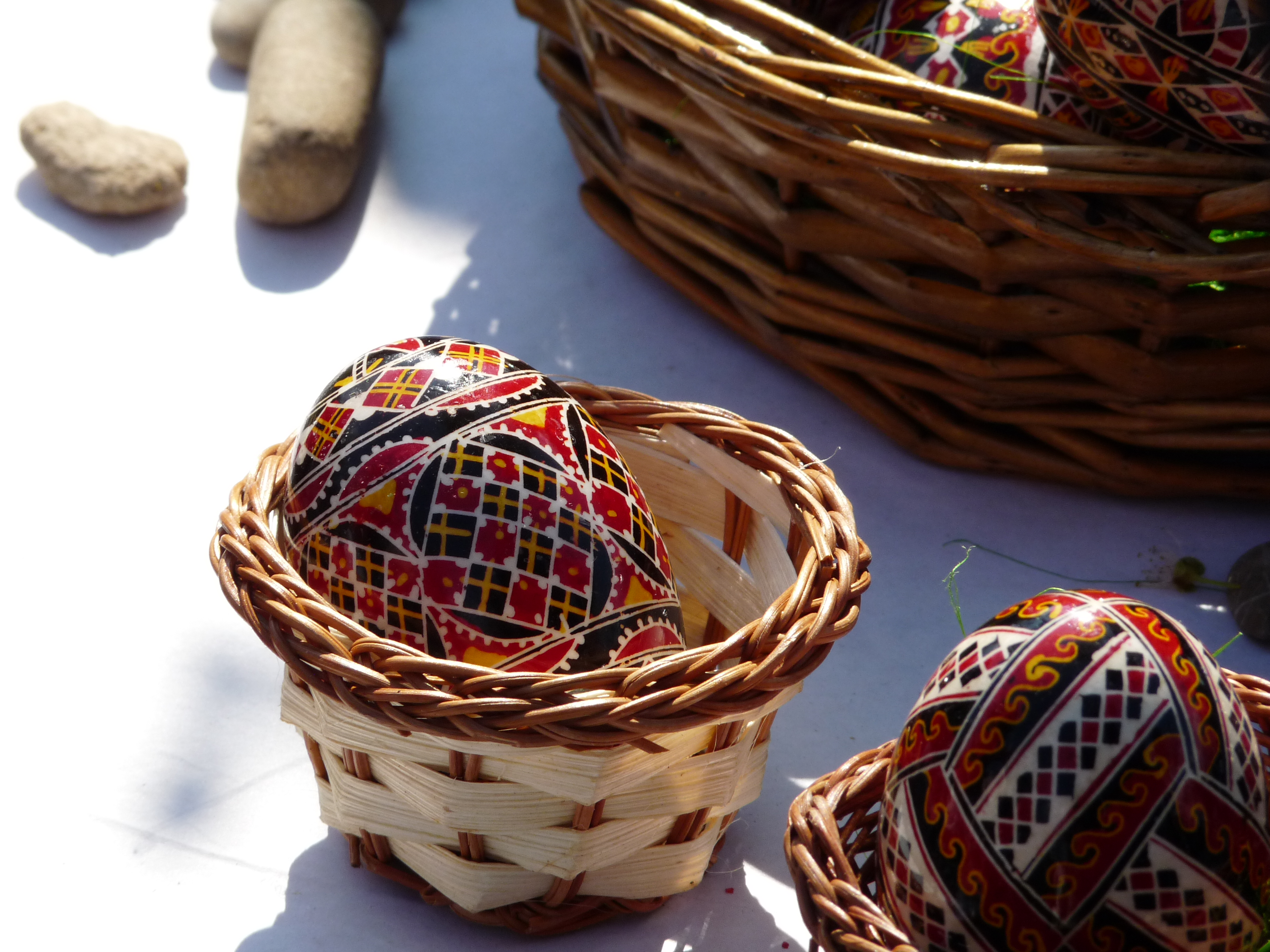 Easter egg at the Palm Sunday fair in the Village Museum, Bucharest